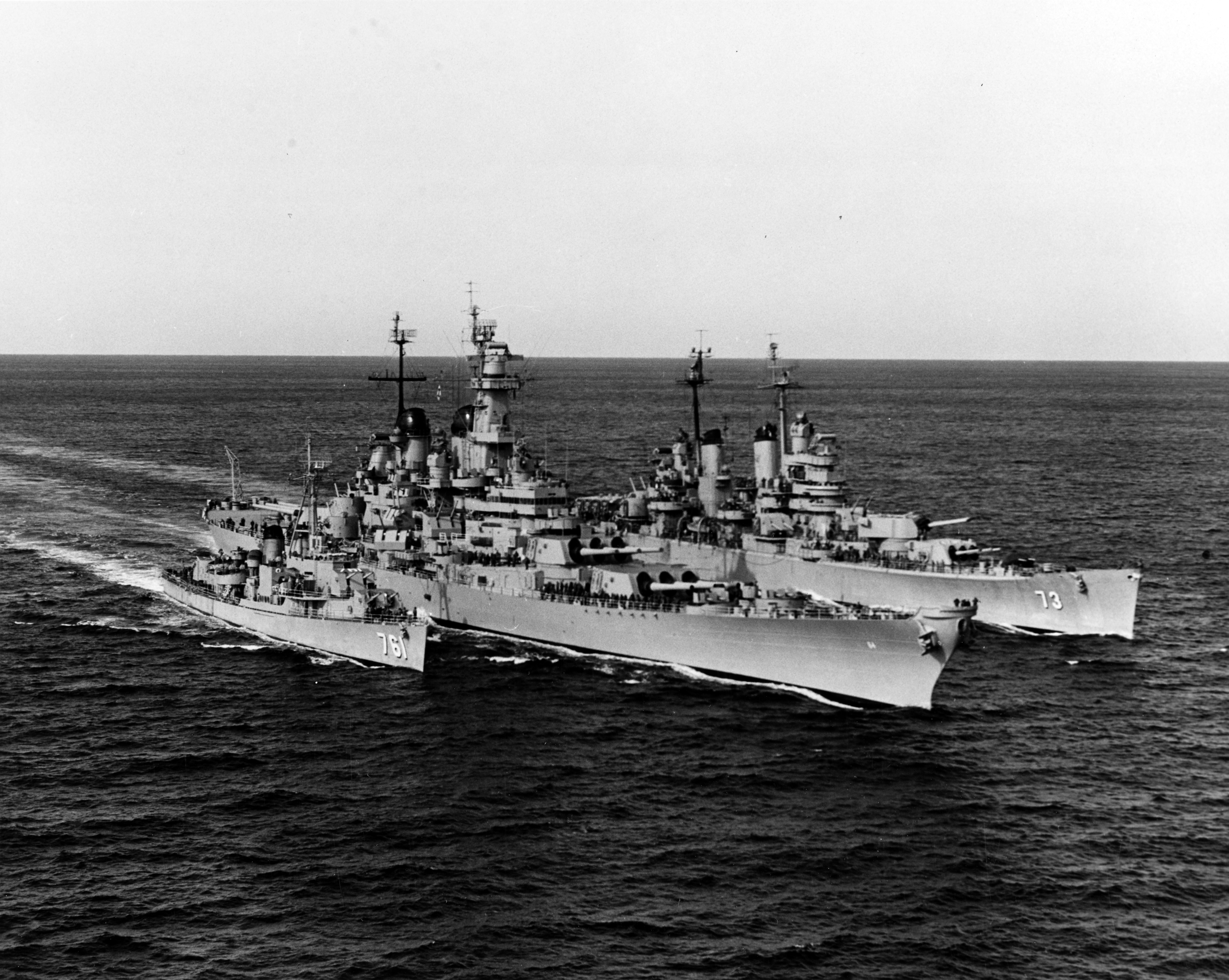 The U.S. Navy battleship USS Wisconsin (BB-64), the heavy cruiser USS Saint Paul (CA-73) and the destroyer USS Buck (DD-761) steaming in close formation during operations off the Korean coast on 22 February 1952.